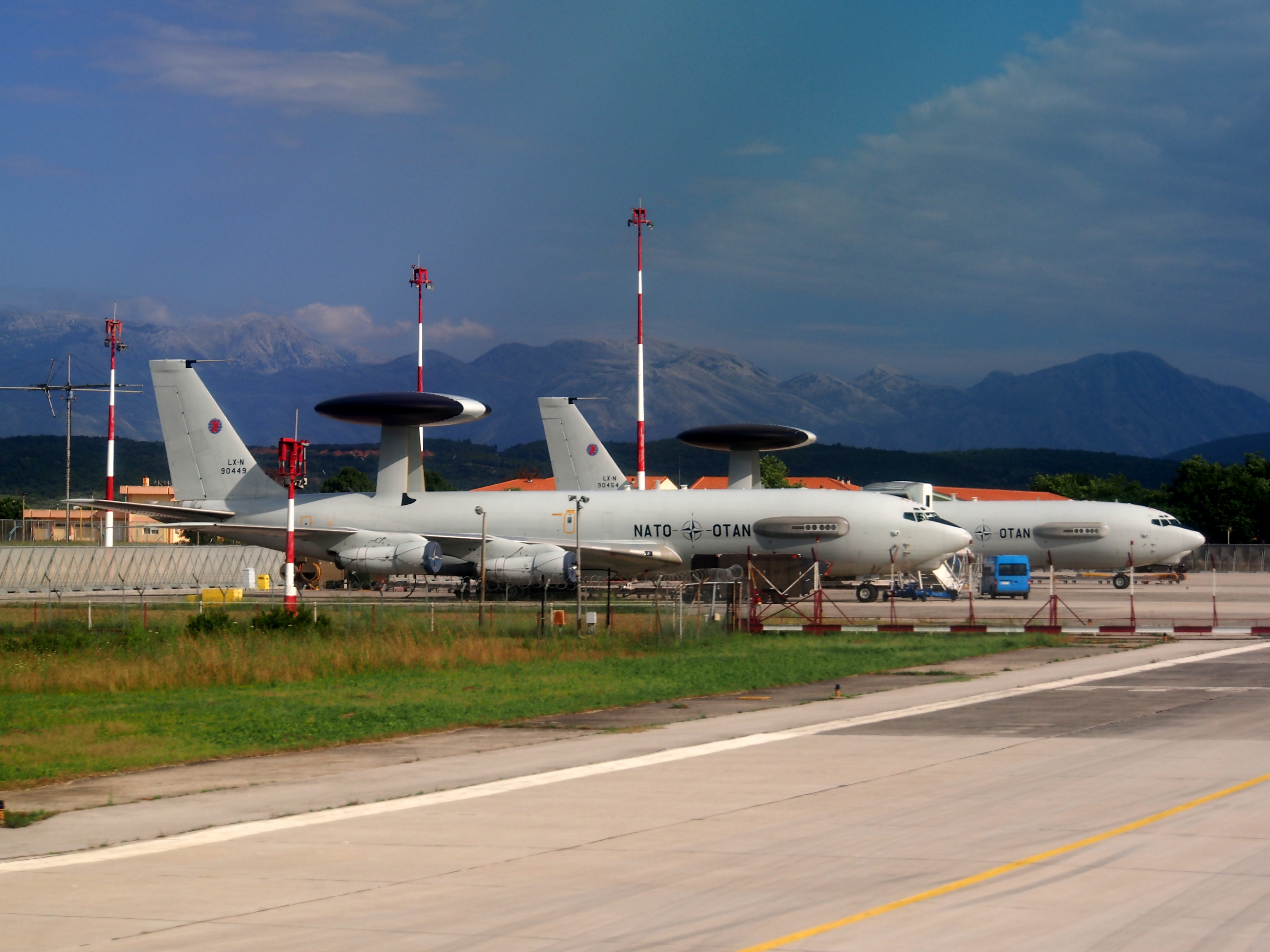 Photographed at Preveza-Aktion National Airport (IATA=PVK, ICAO=LGPZ), Lefkada, Greece.